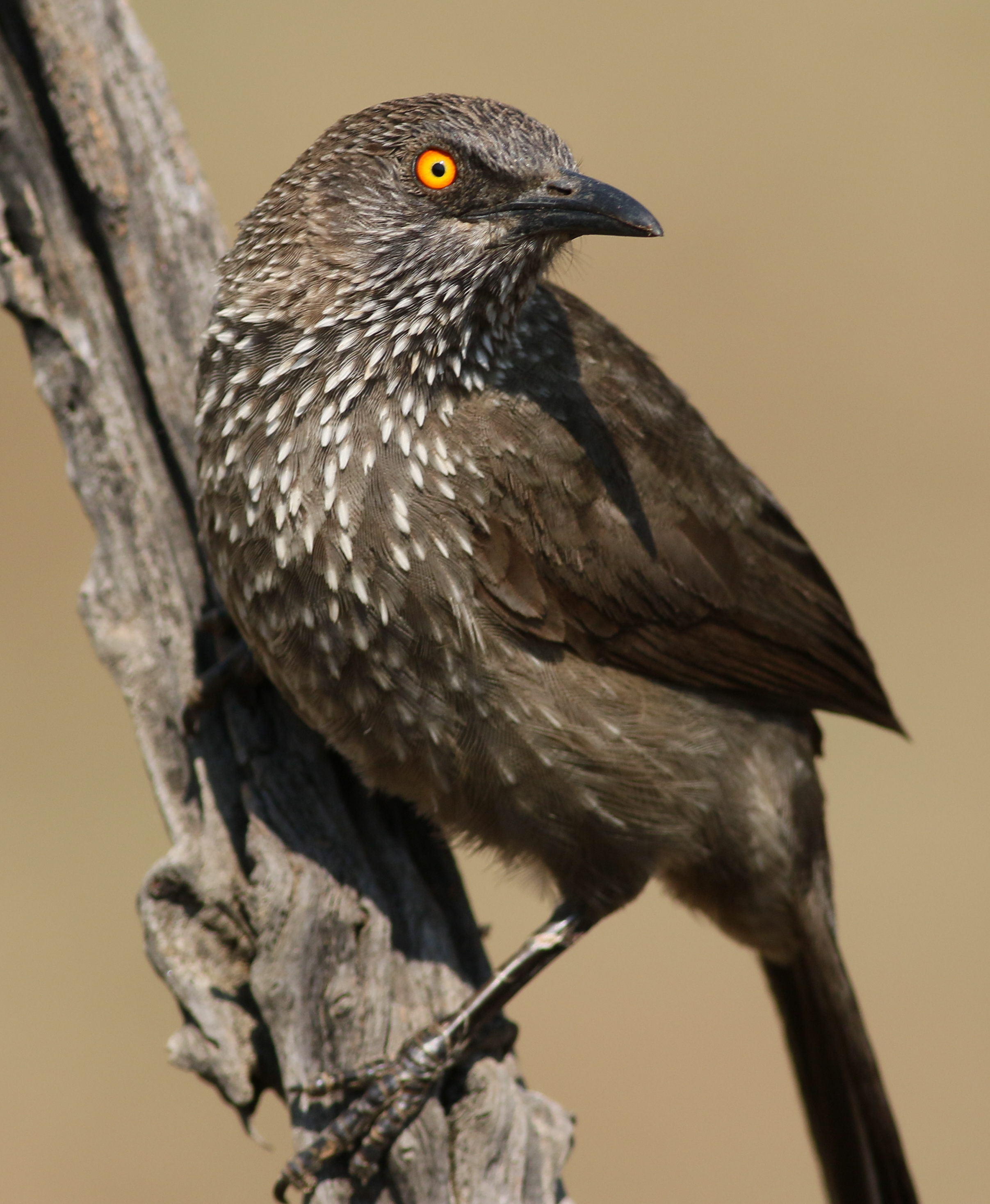 Mankwe Hide, the stick outside the entrance.